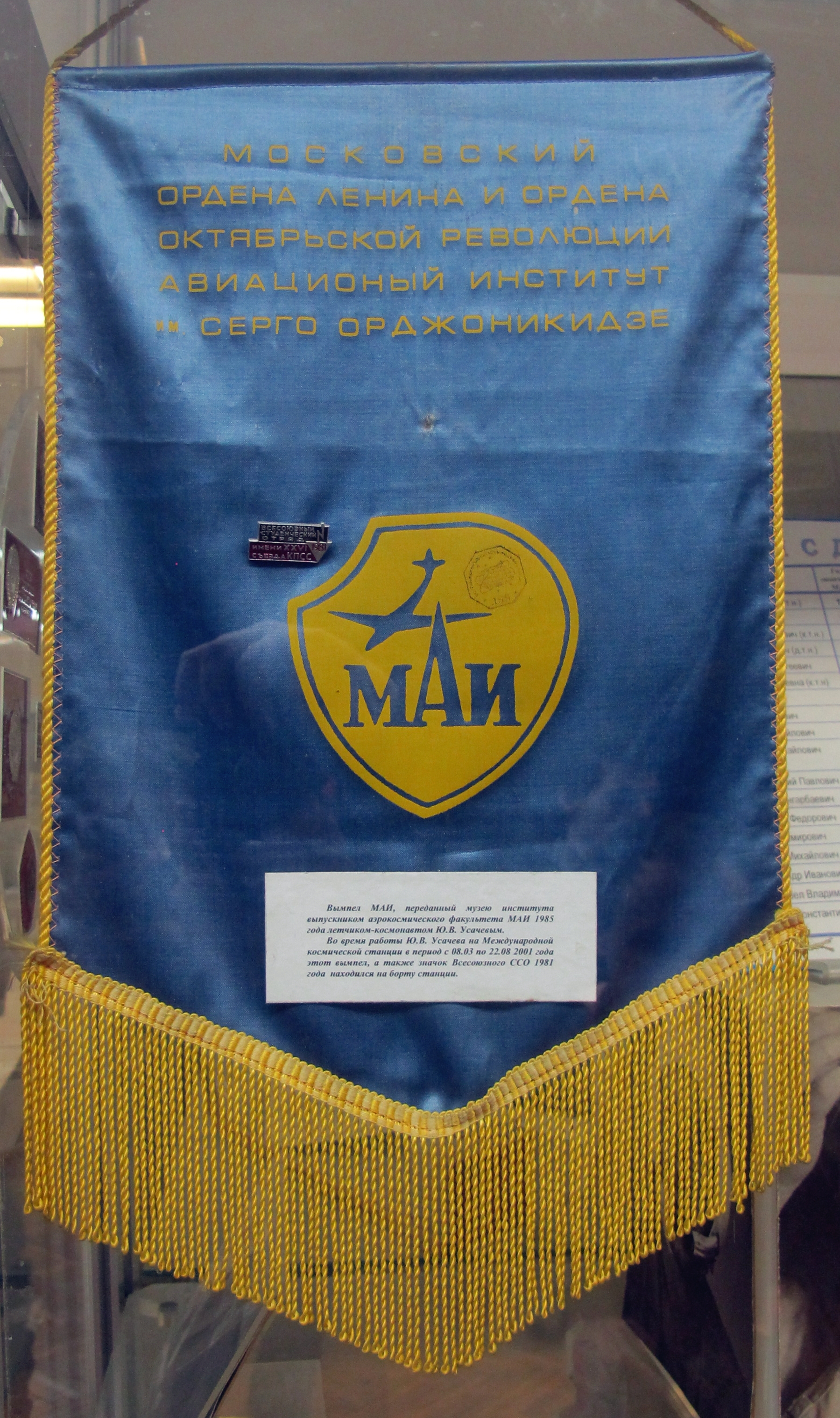 Museum of Moscow Aviation Institute